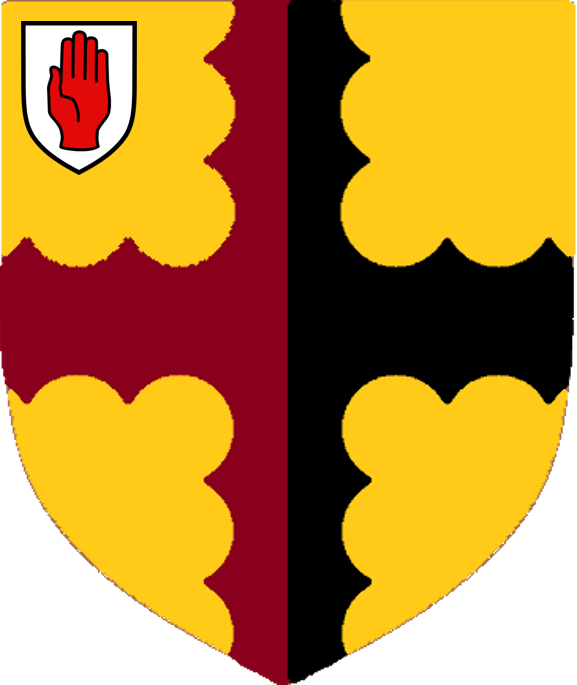 Shield of arms of the Brooke baronets of Norton Priory